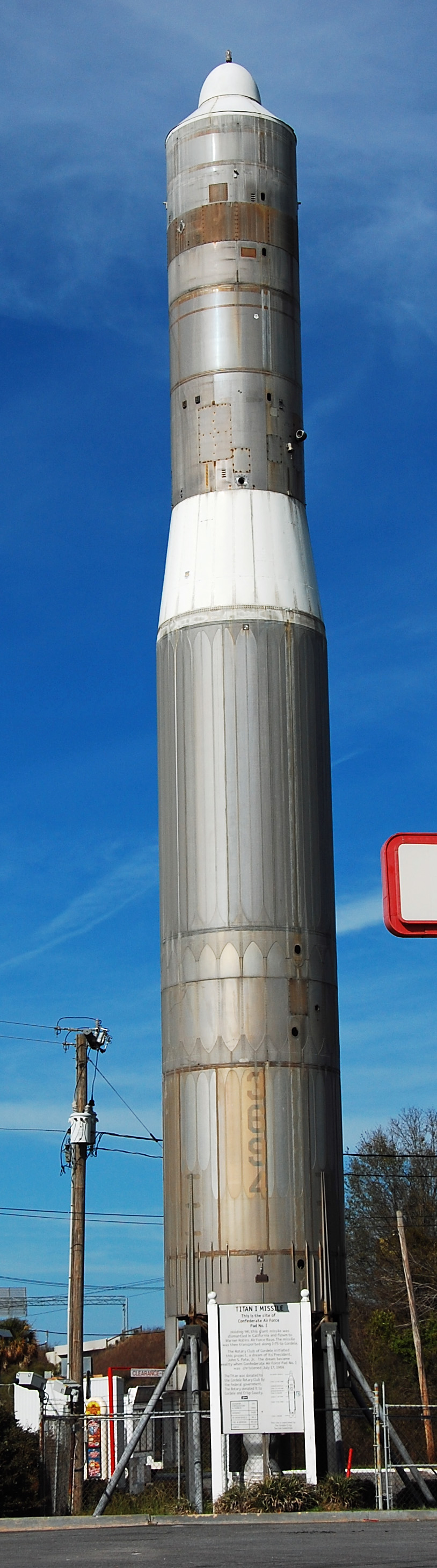 Titan I rocket in Cordele, Georgia